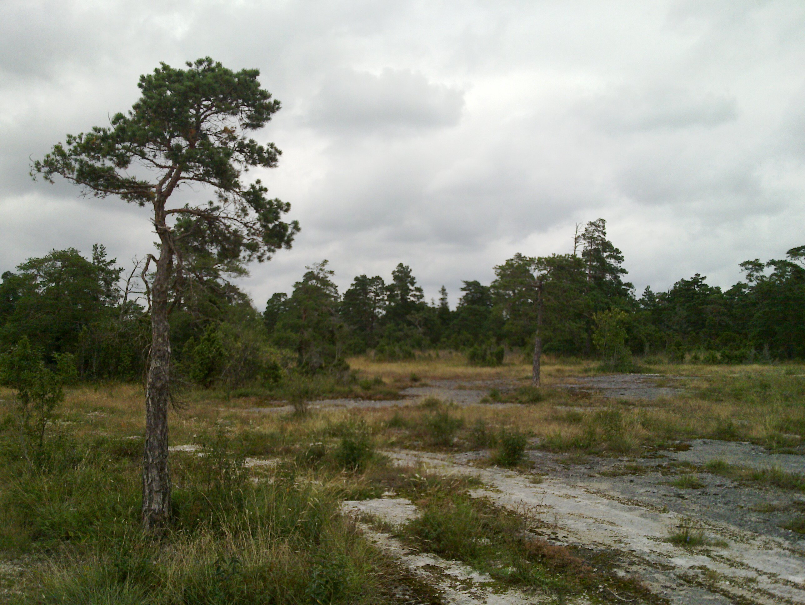 File hajdar, Gotland, Sweden